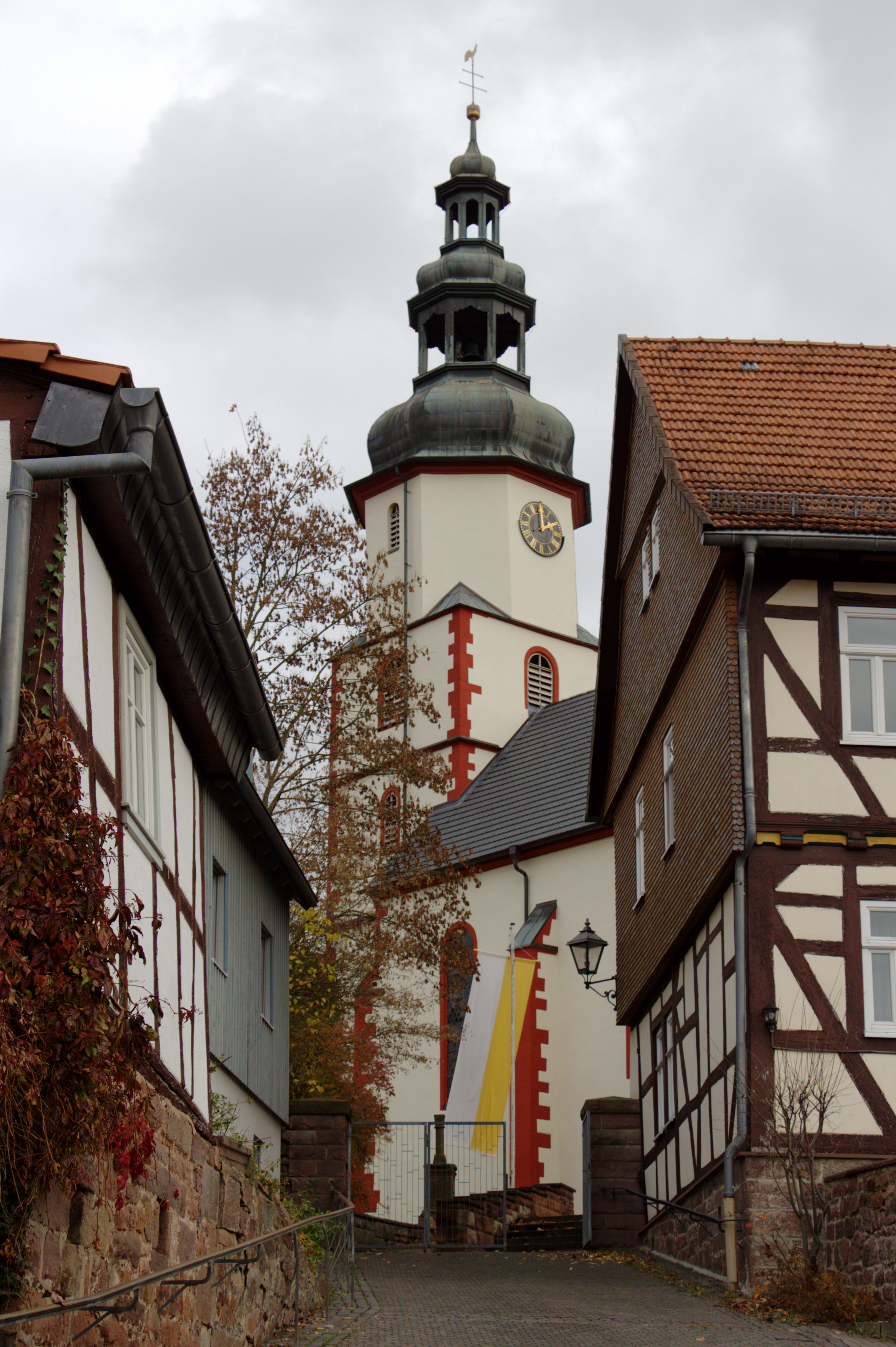 Catholic church - St. Vitus (detail) in Bad Salzschlirf, Hesse, Germany